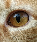 Amber eye of a cat